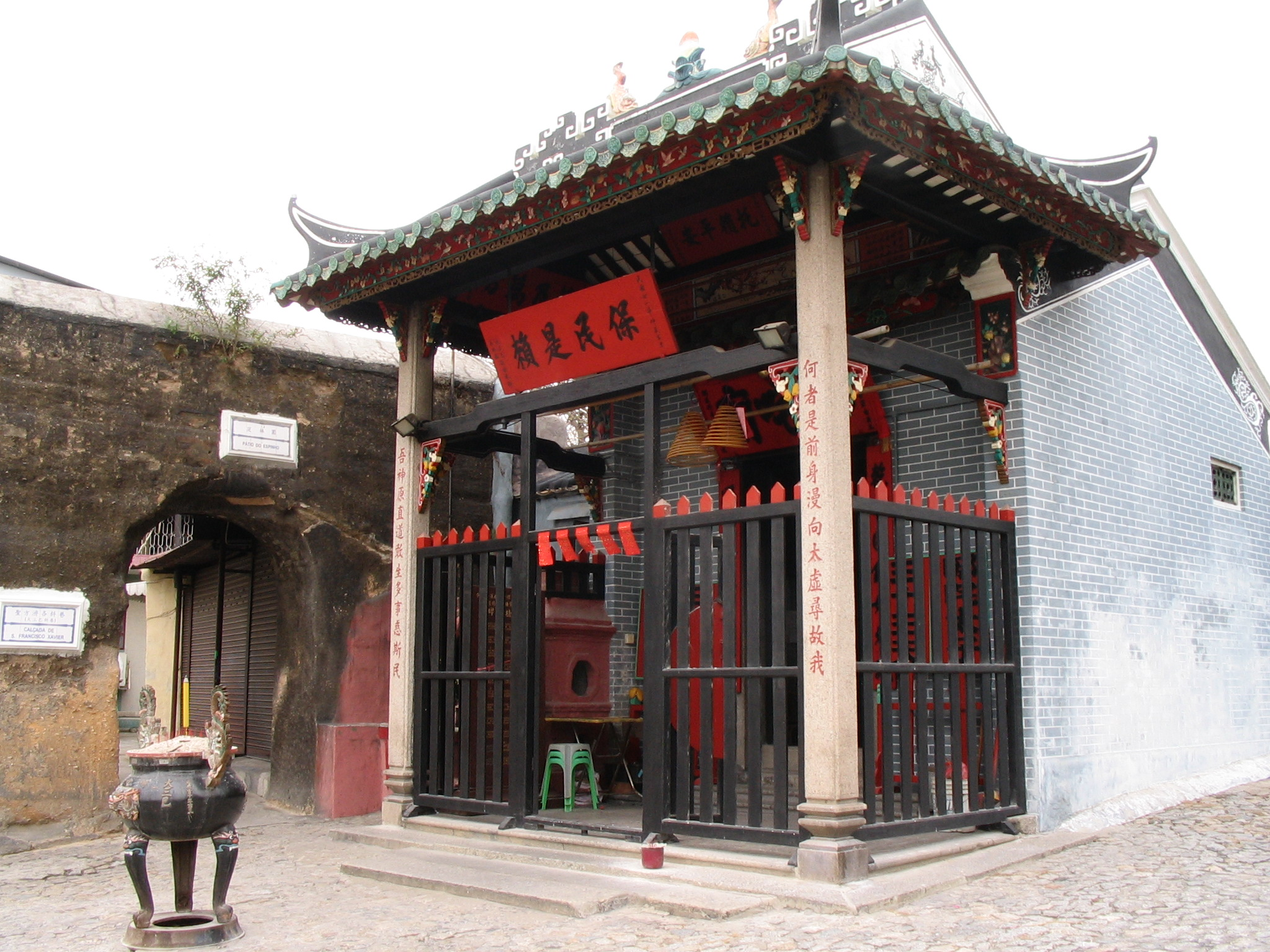 Photo of Na Tcha Temple